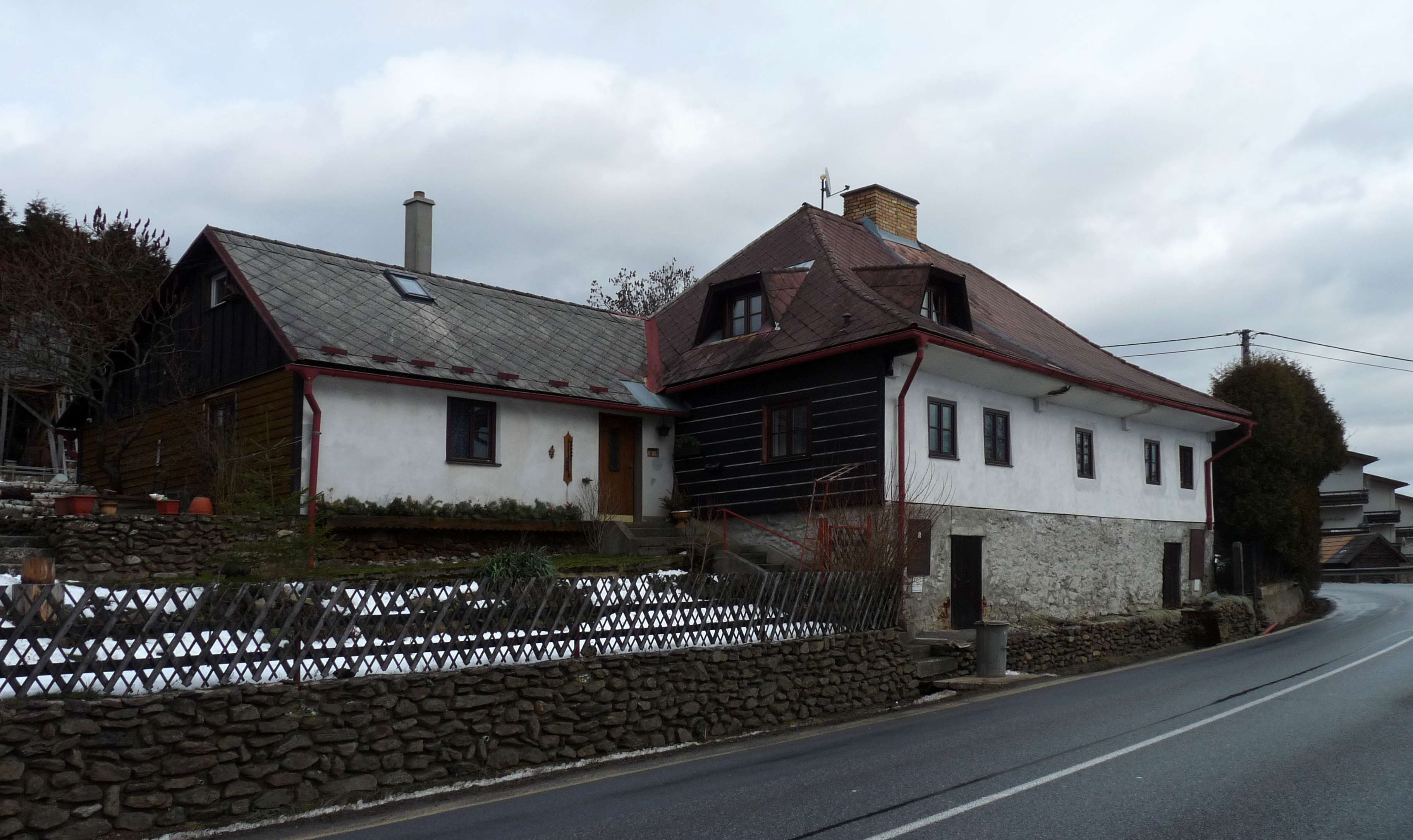 House No 16 in the village of Lenora, Prachatice District, South Bohemian Region, Czech Republic.